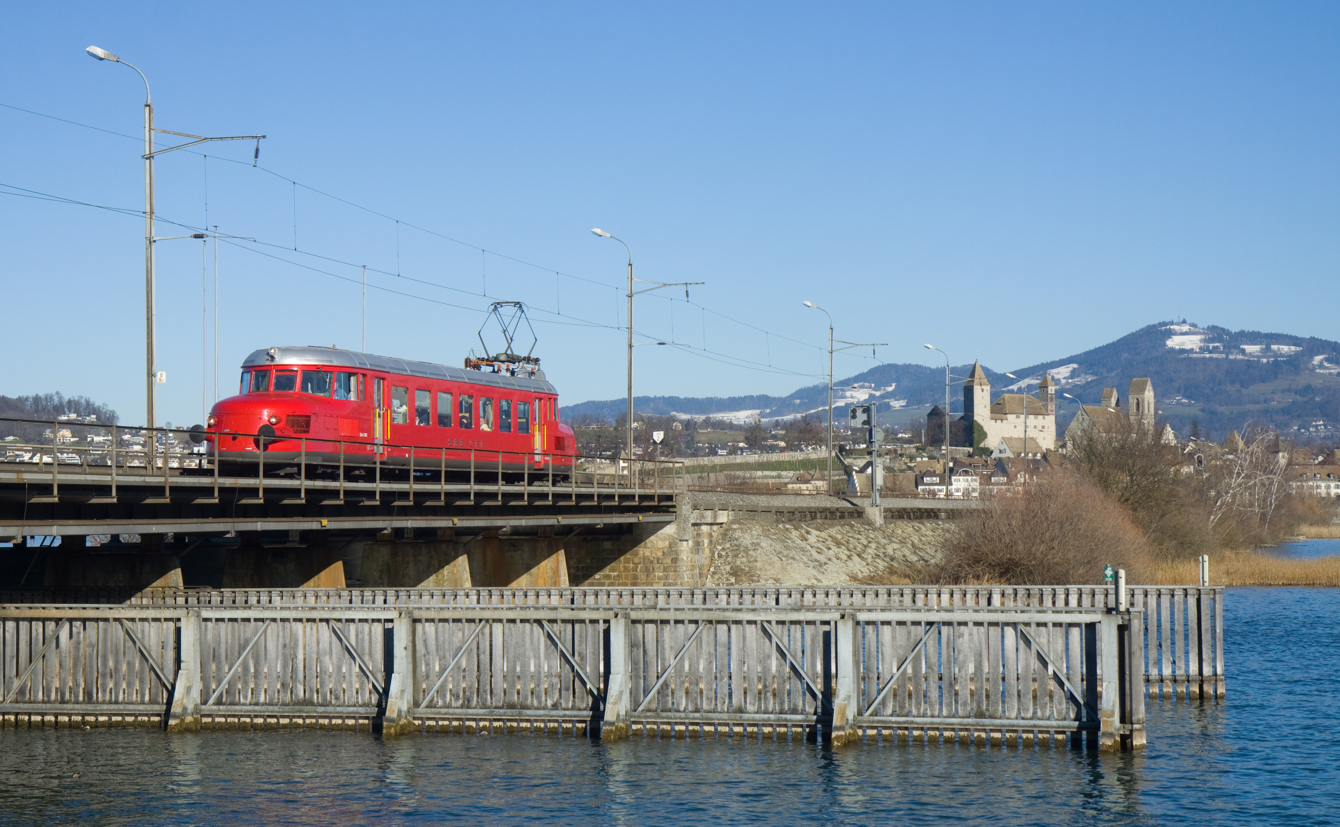 RAe 2/4 1001 "Roter Pfeil" ("Red Arrow"), owned by SBB Historic, on its way around Lake Zurich. The train has been chartered by a birthday party. The picture was taken on the Seedamm between Rapperswil and Hurden, Switzerland.